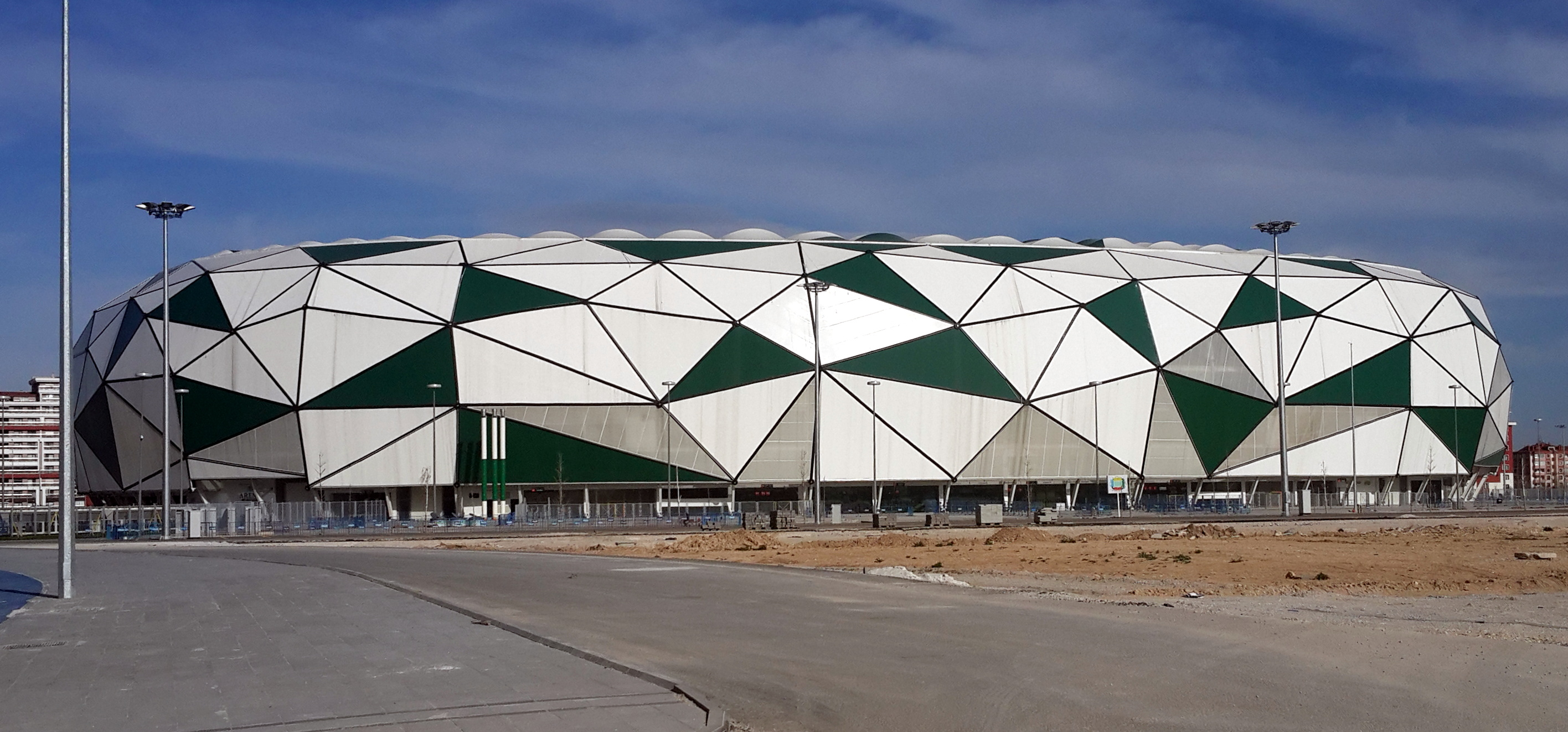 TORKU ARENA